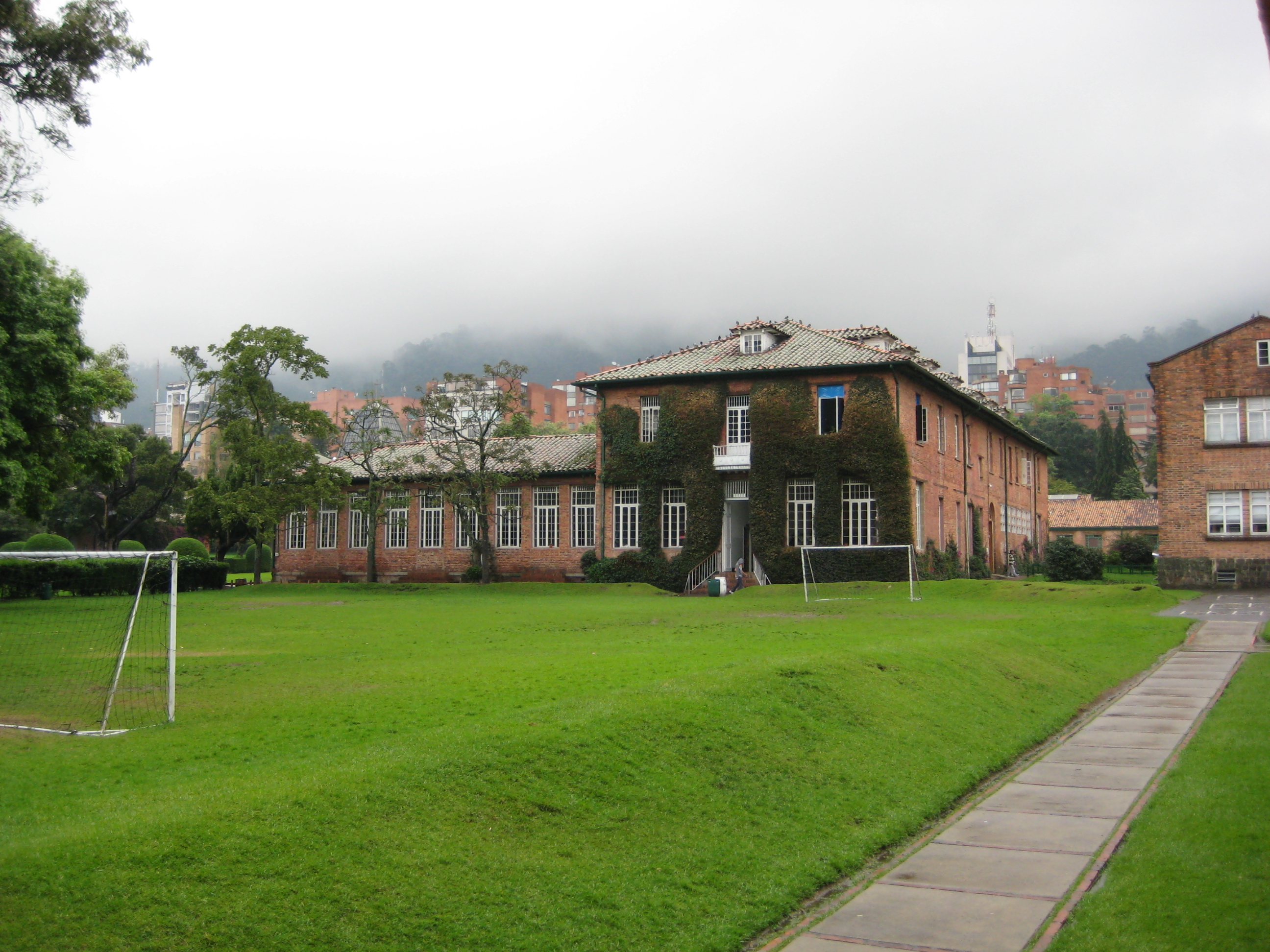 Gimnasio Moderno in Bogota